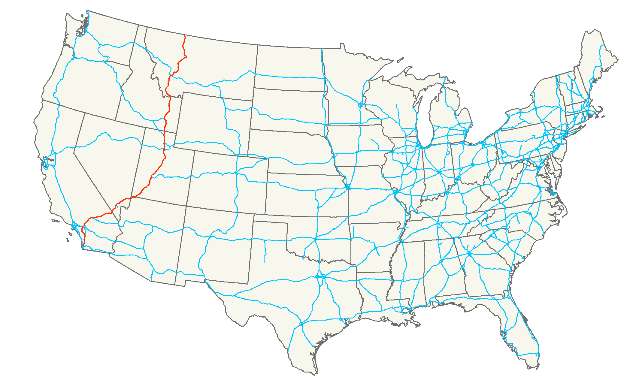 Map of Interstate 15